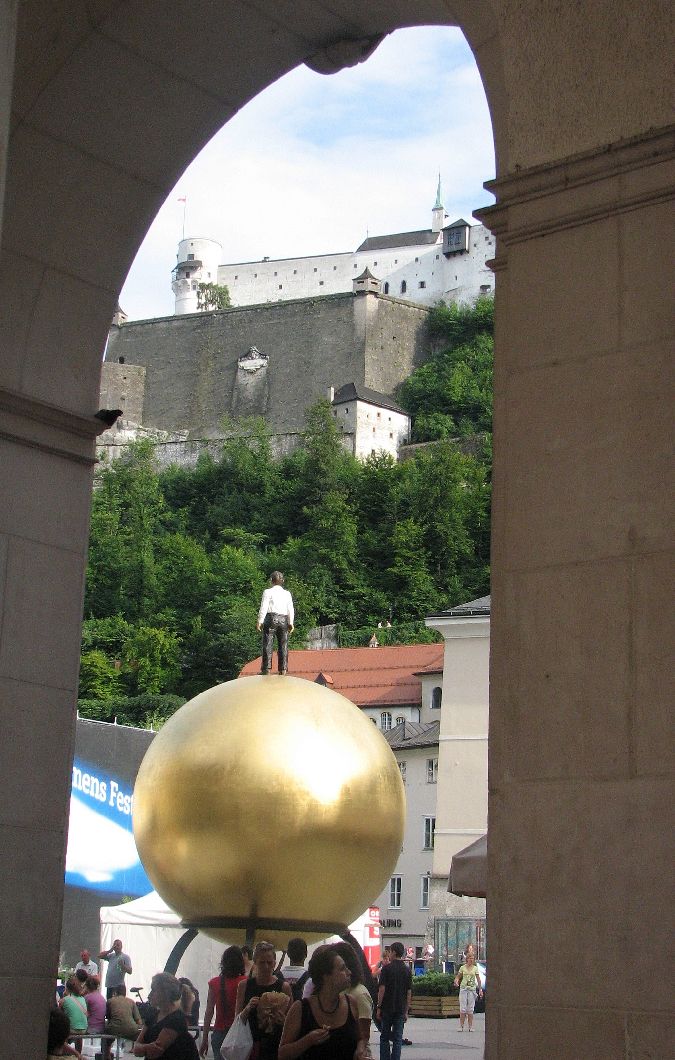 Sphaera by Stephan Balkenhol at Kapitelplatz, Salzburg